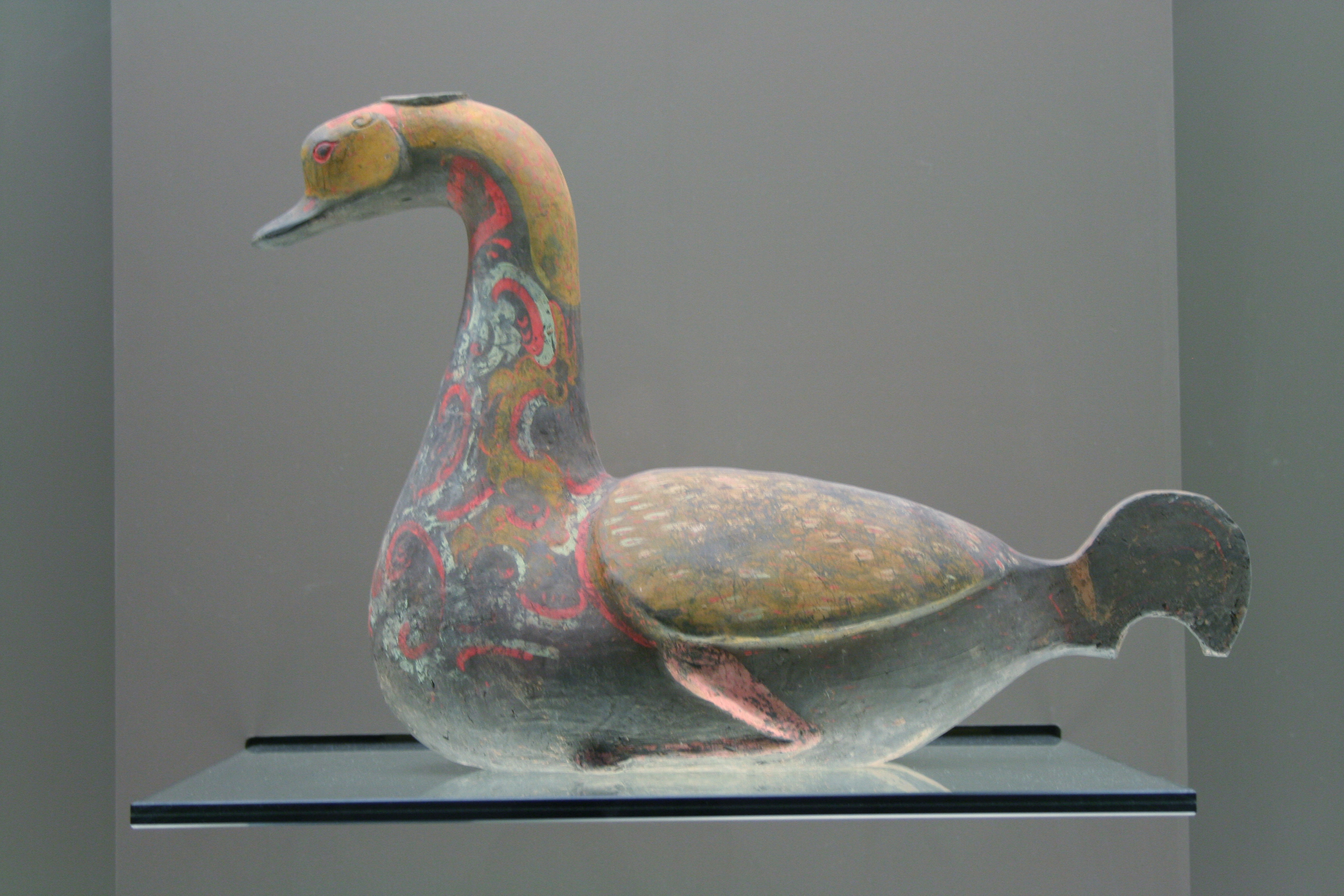 An earthenware goose pourer, painted with pigment designs, from the Chinese Western Han Dynasty (202 BC to 9 AD). Cernuschi Museum, Paris, France.